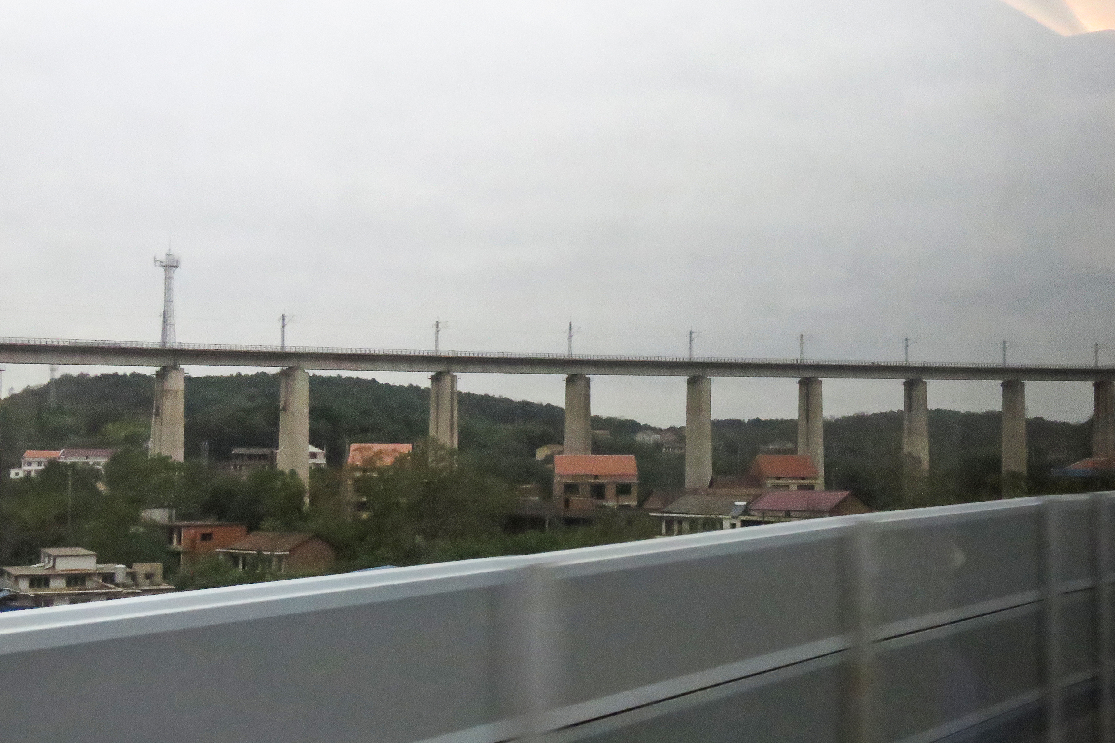 Taken from G100 - another new line.